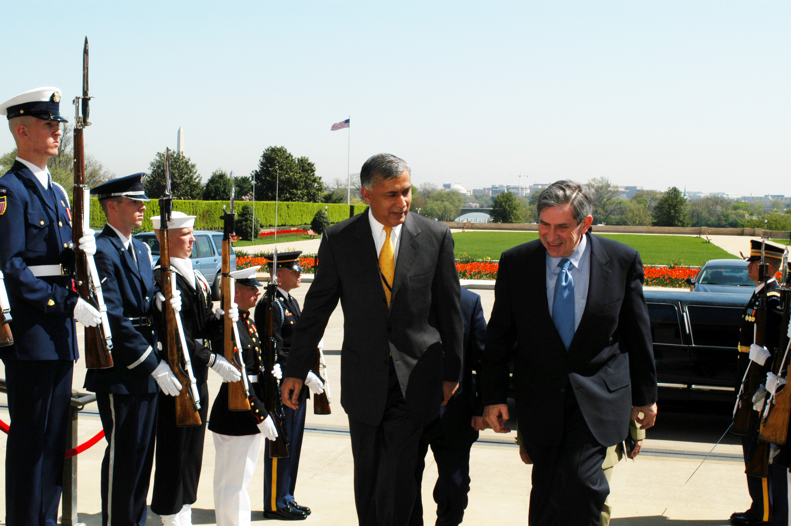 Deputy Secretary of Defense Paul Wolfowitz (right) escorts Pakistani Minister of Finance Shaukat Aziz through an honor cordon and into the Pentagon on April 15, 2003. Wolfowitz and Aziz will meet to discuss regional items of interest to both nations.